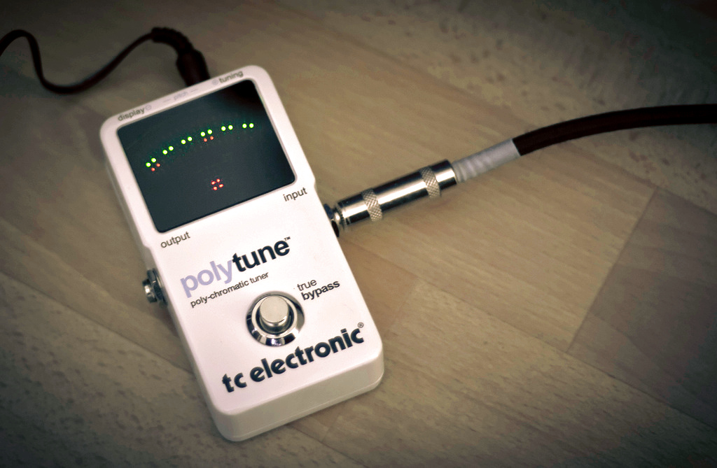 tc electronic polytune Got myself a new toy to replace my old and faithful Korg DT-10 which gave up on me yesterday. This TC Electronic Polytune is so awesome! Strum, tune and rock!